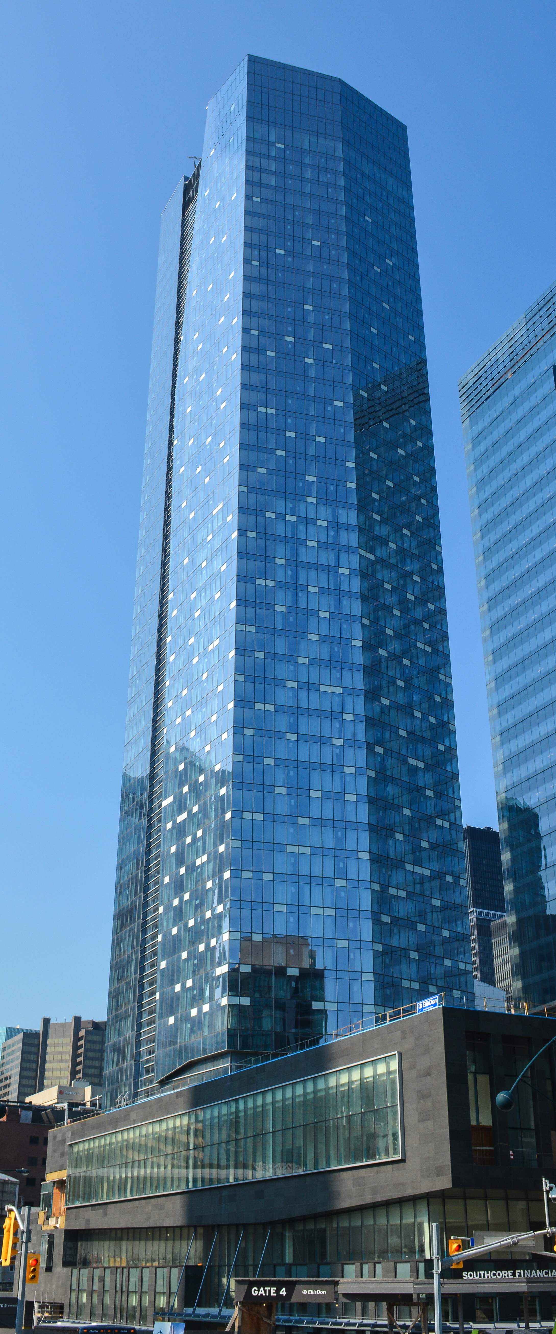 Delta Hotel